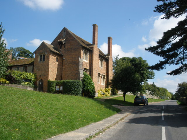 Primary School, Ewelme